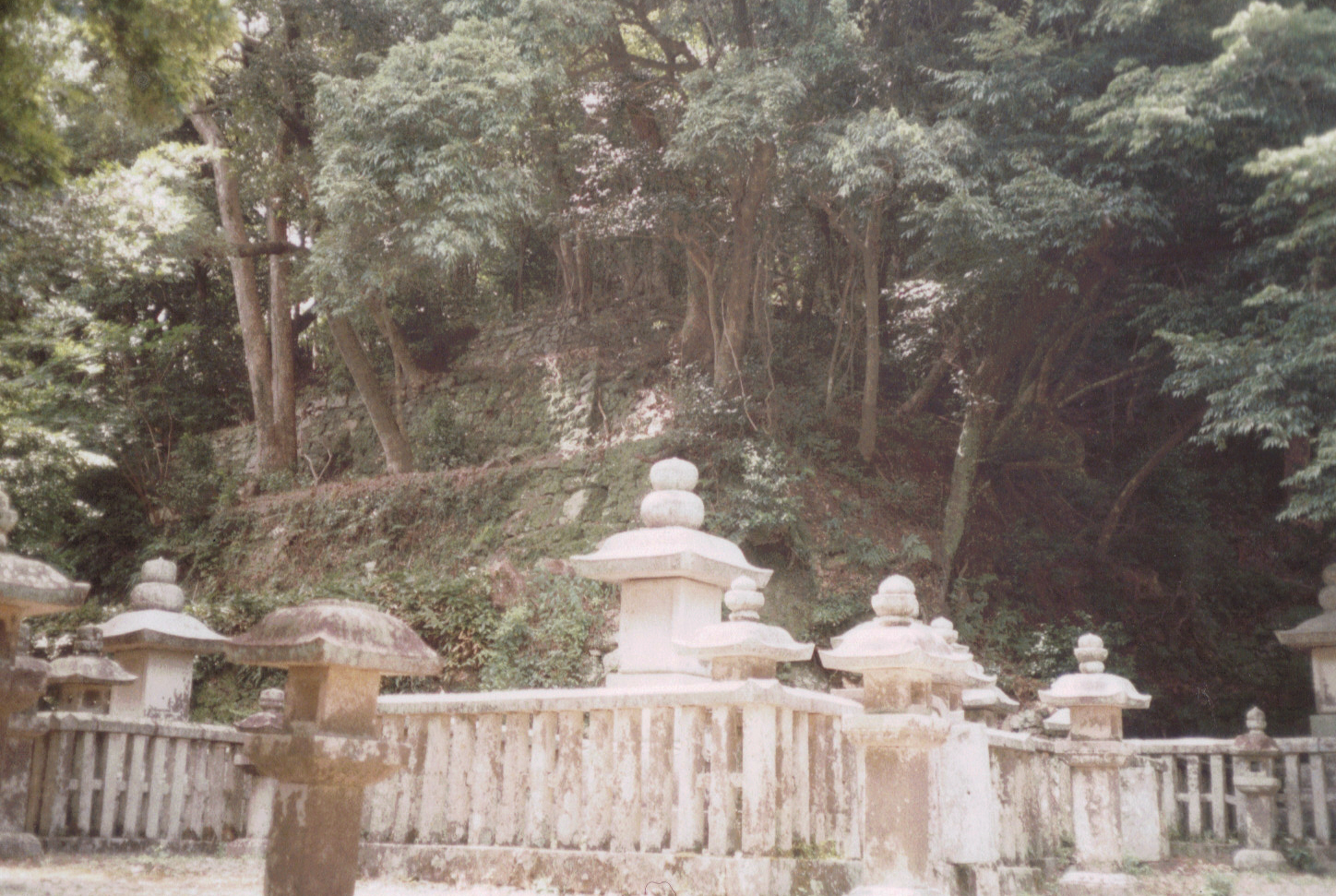 Cemetery behind Banshoin Temple, Izuhara, Tsushima Island, Nagasaki Ken, Japan